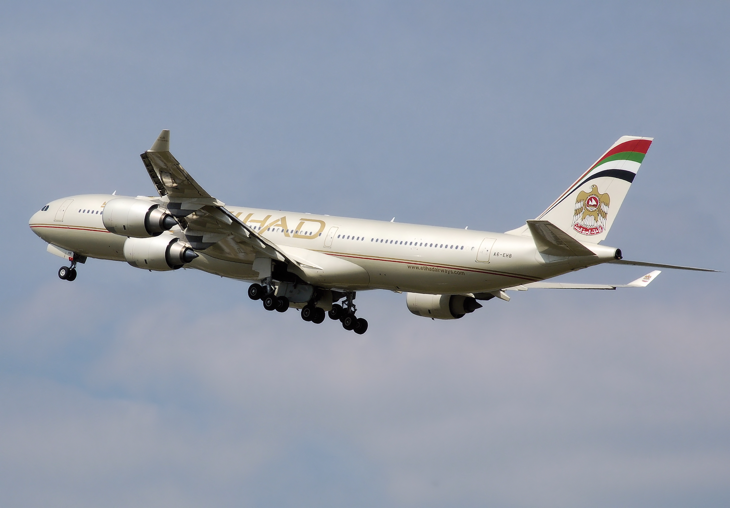 Etihad Airways Airbus A340-500 (A6-EHB) lands at London Heathrow Airport.